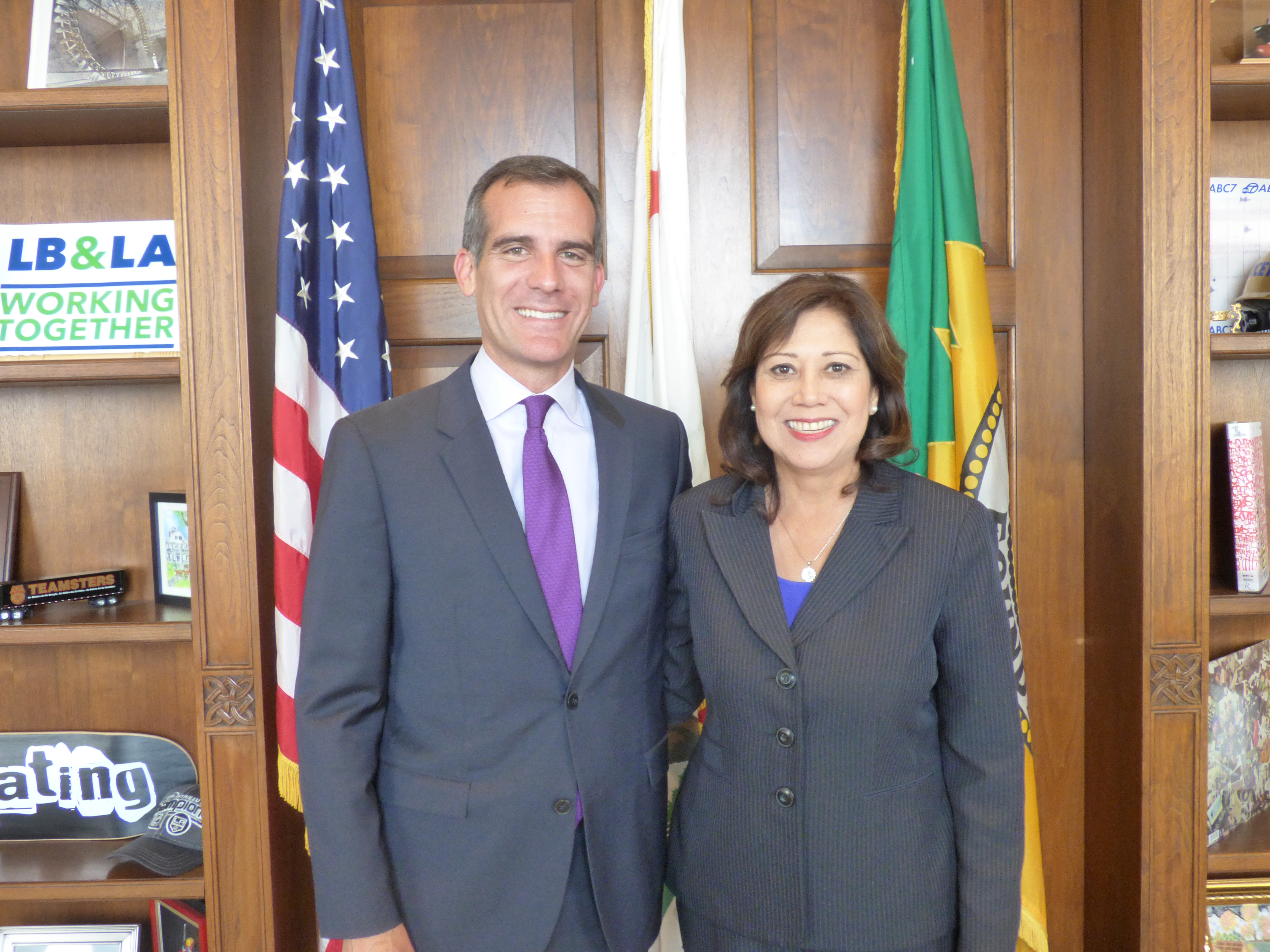 Mayor Eric Garcetti welcomes incoming County Supervisor Hilda Solis.